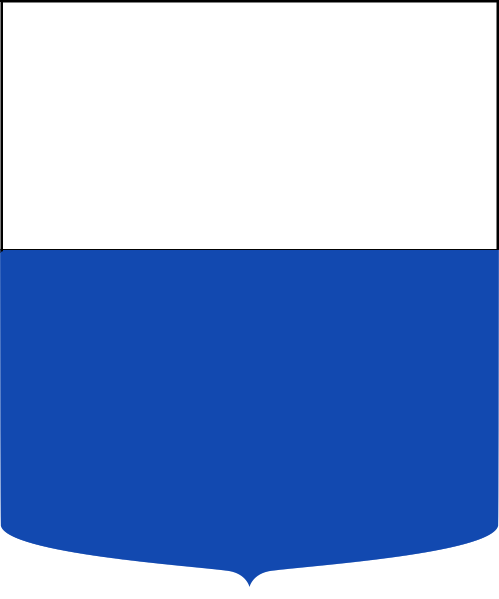 Arms of Zulian (Giuliani)